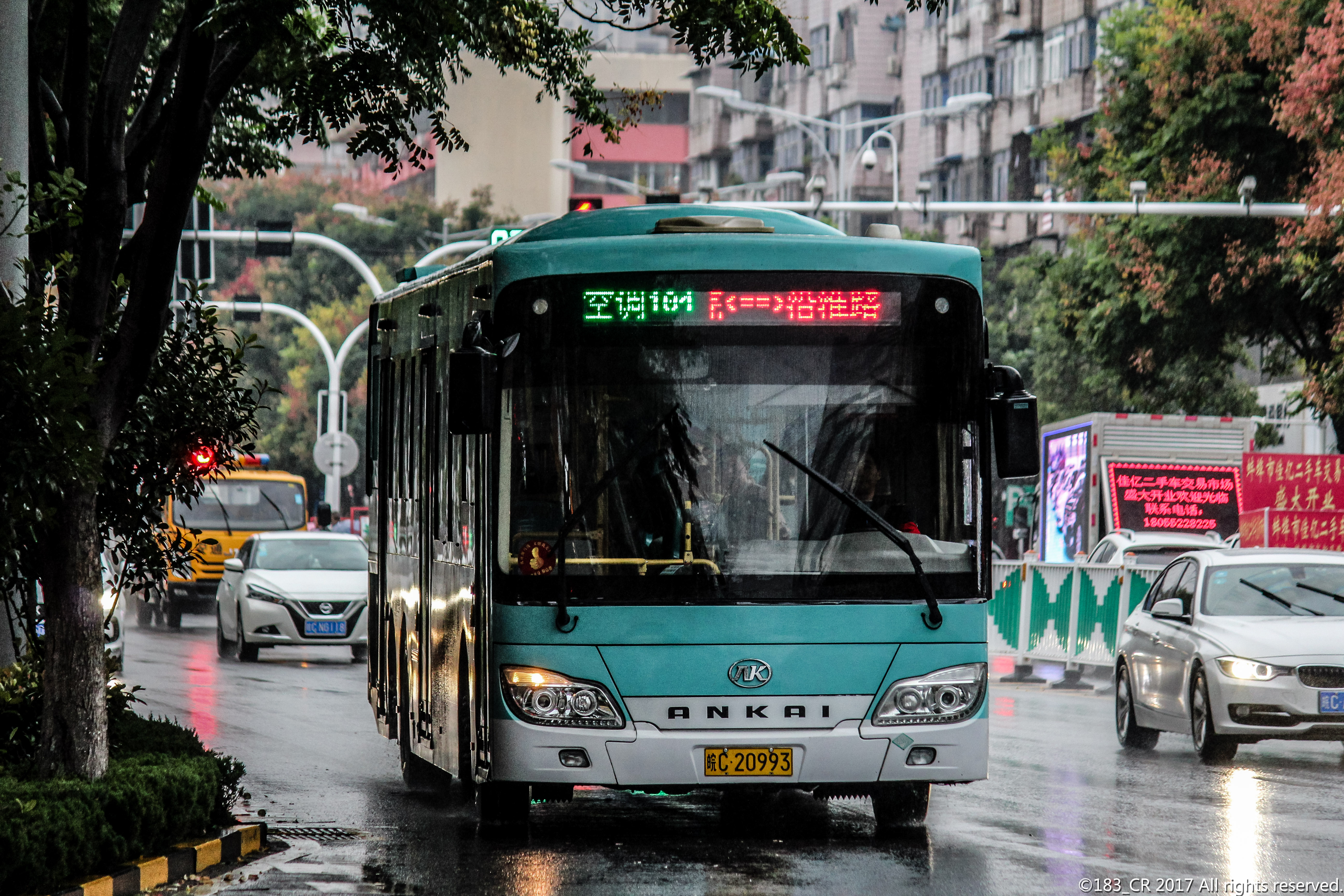 Bengbu Bus No.104 N2